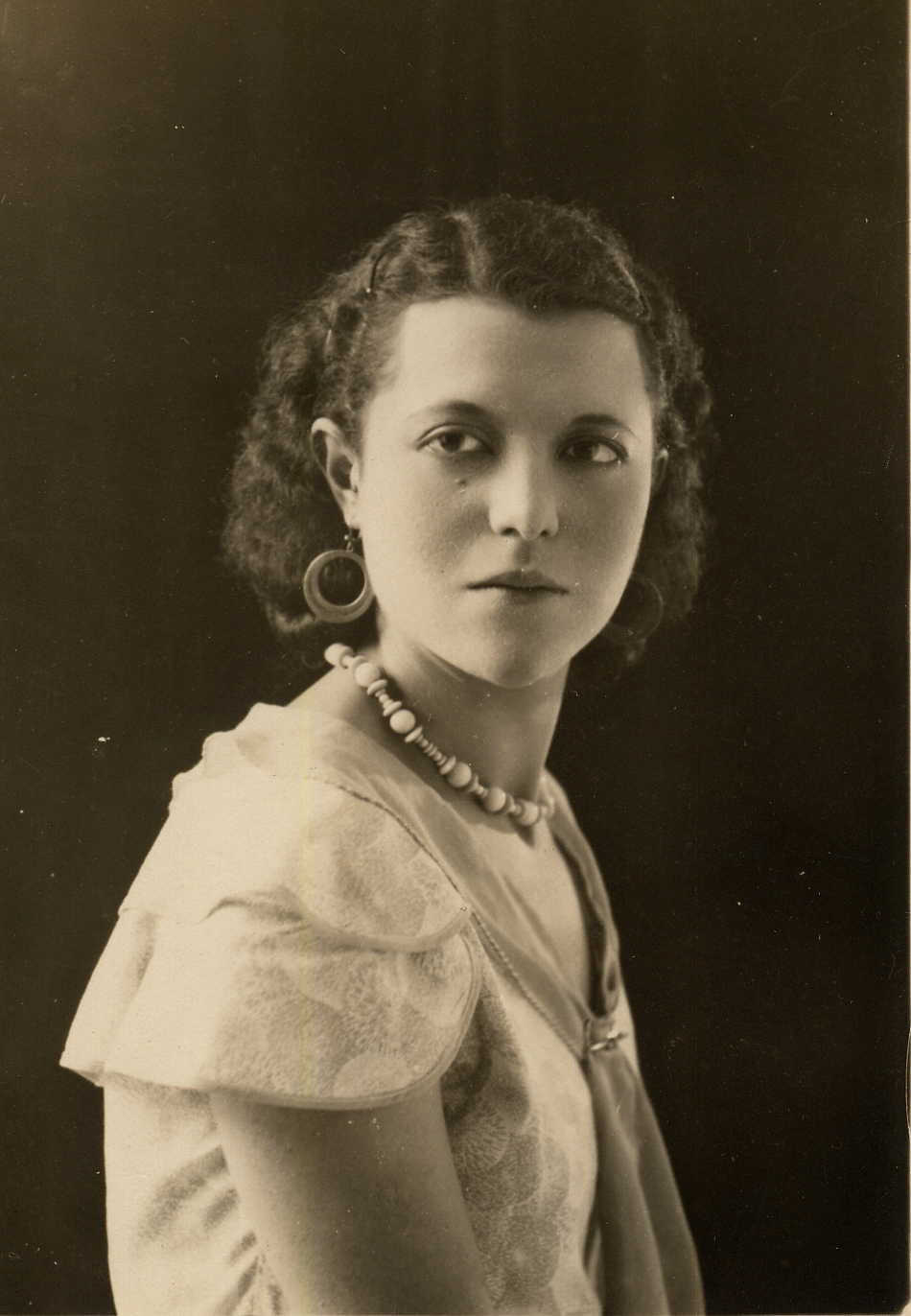 Picture of Consuelo Villalon Aleman, Pianista Mexicana